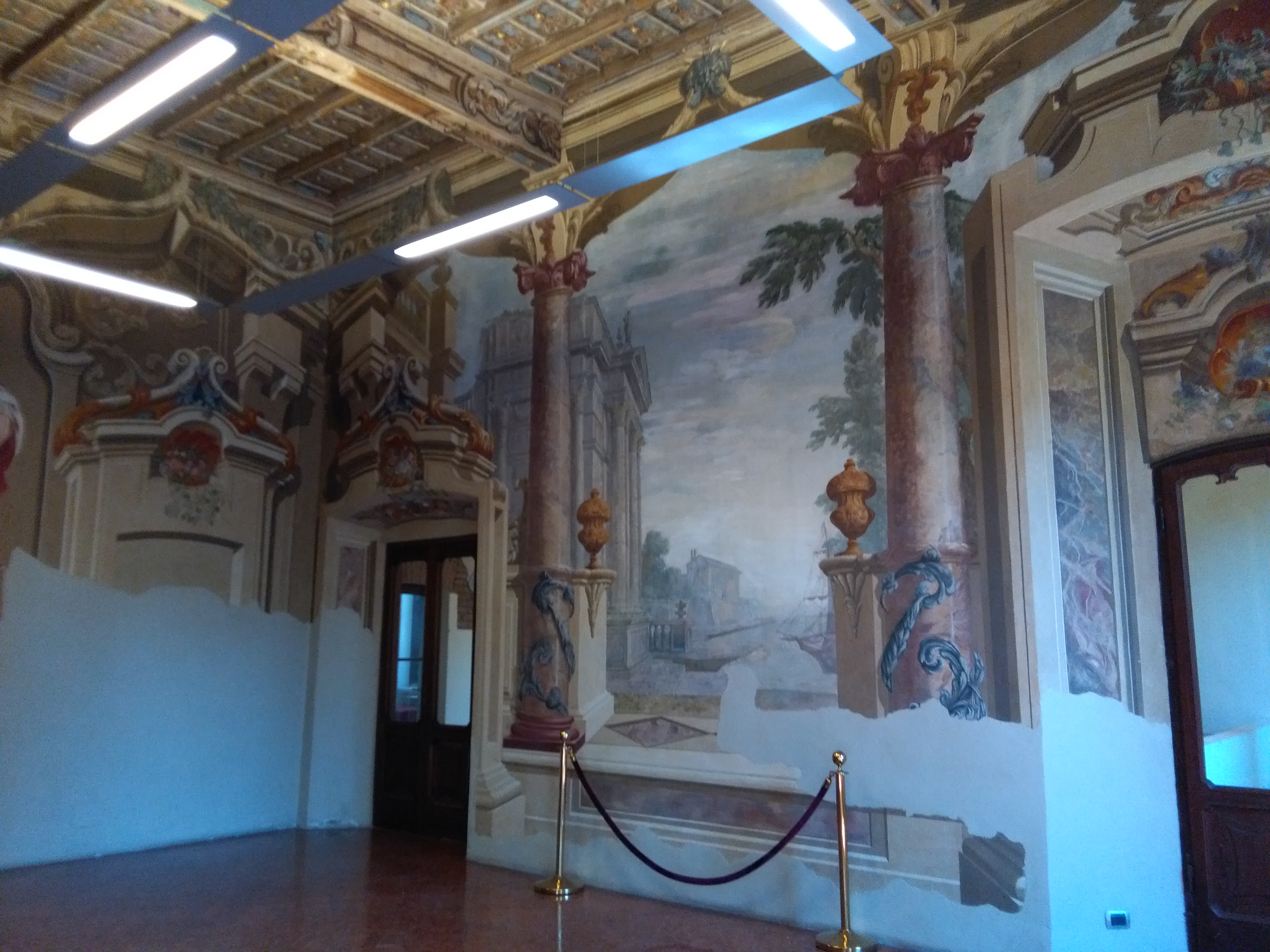 Marina's_room